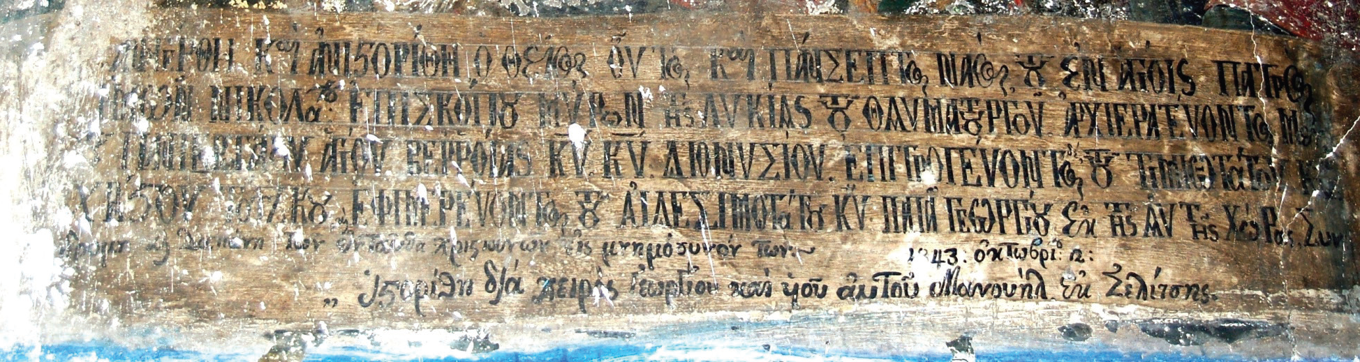 Zrvochor Saint Nicholas Church Inscription